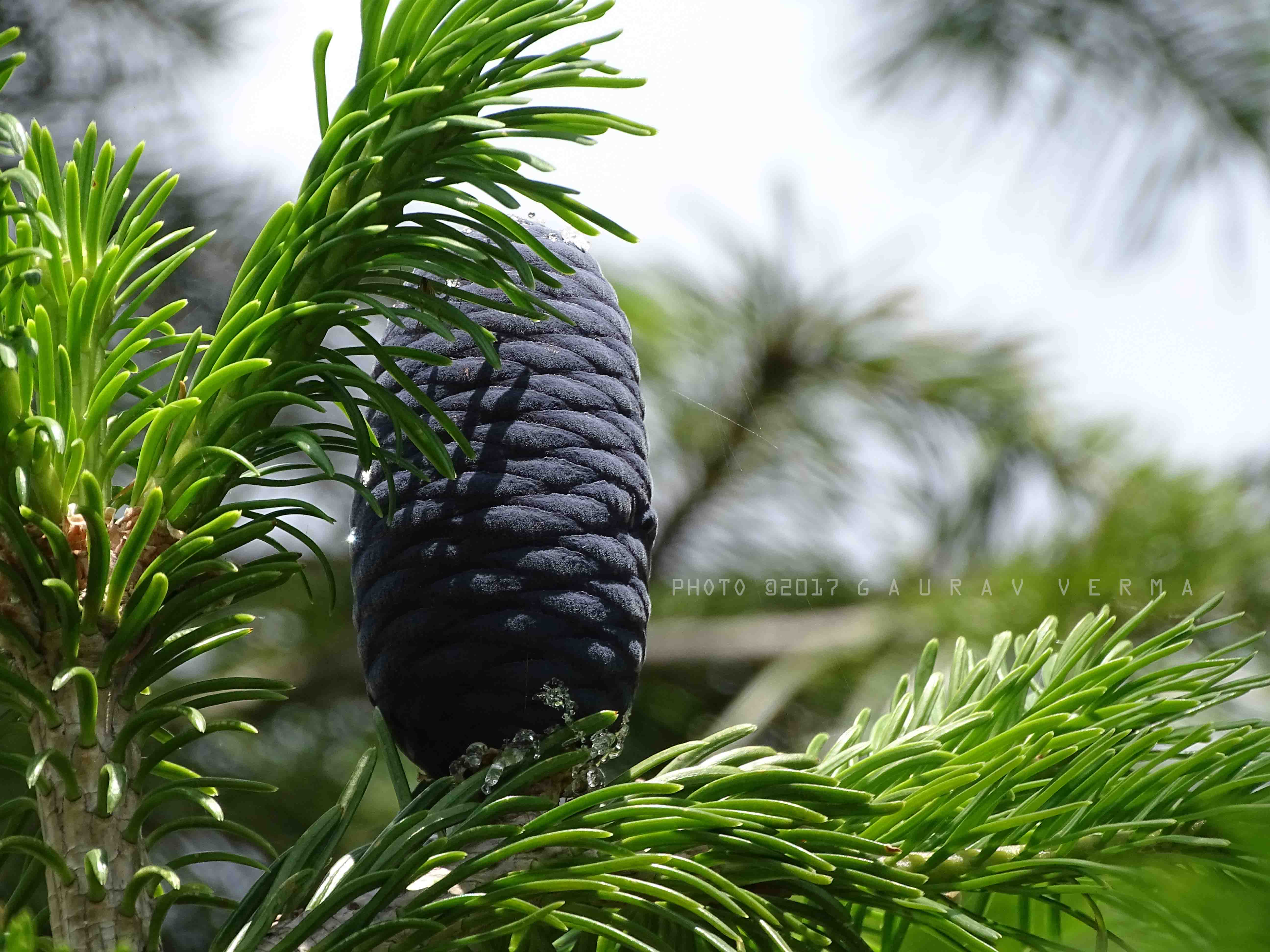 Abies pindrow in its natural habitat at Kufri, India.